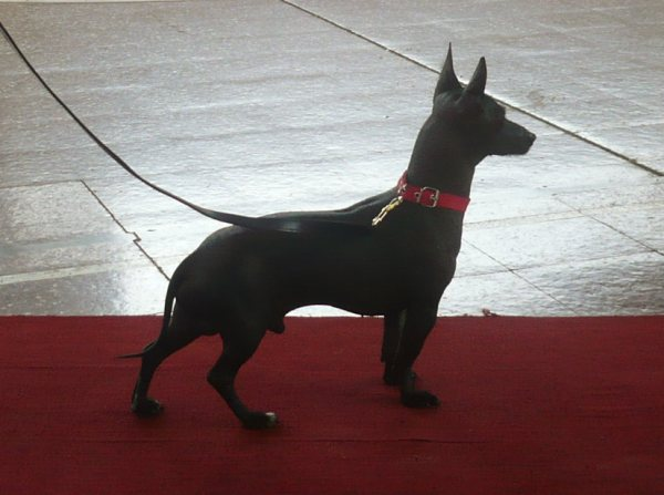 Rony, Pila Andino, type adapted to life at high altitude.